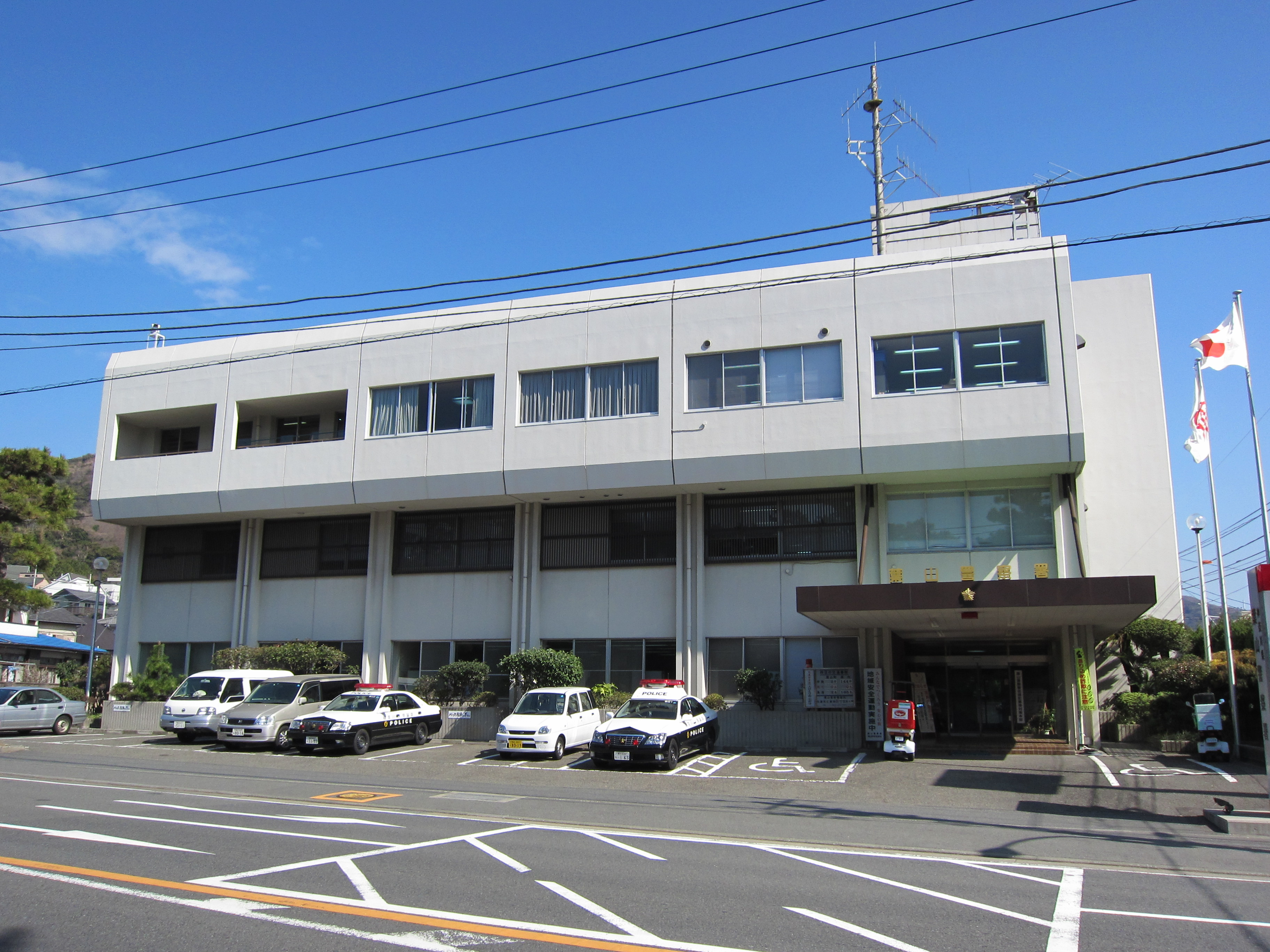 Hayama Police Station